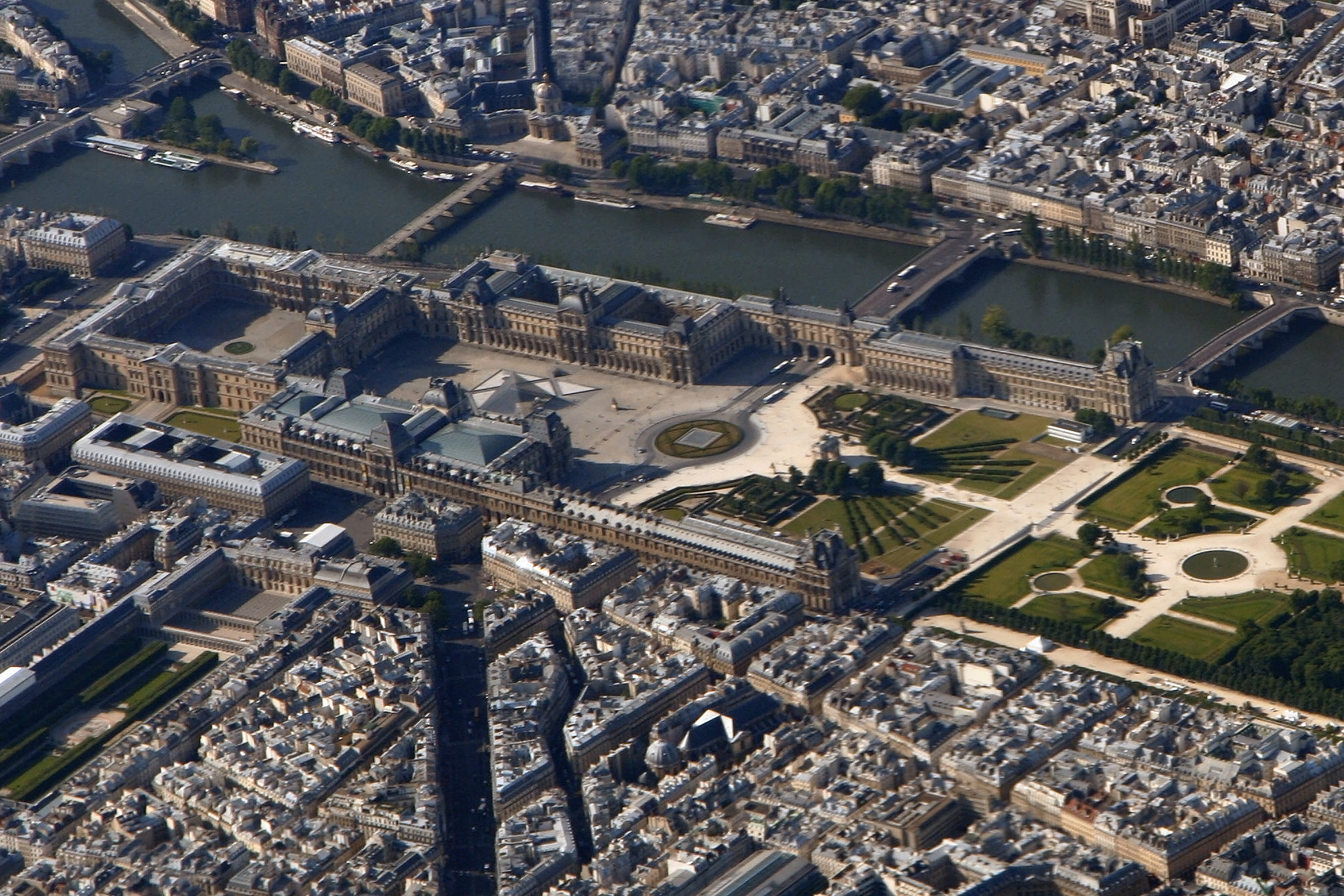 The Louvre Palace seen from an airplane. On account of the flight direction, north is at the bottom of the image, and west is on the right.